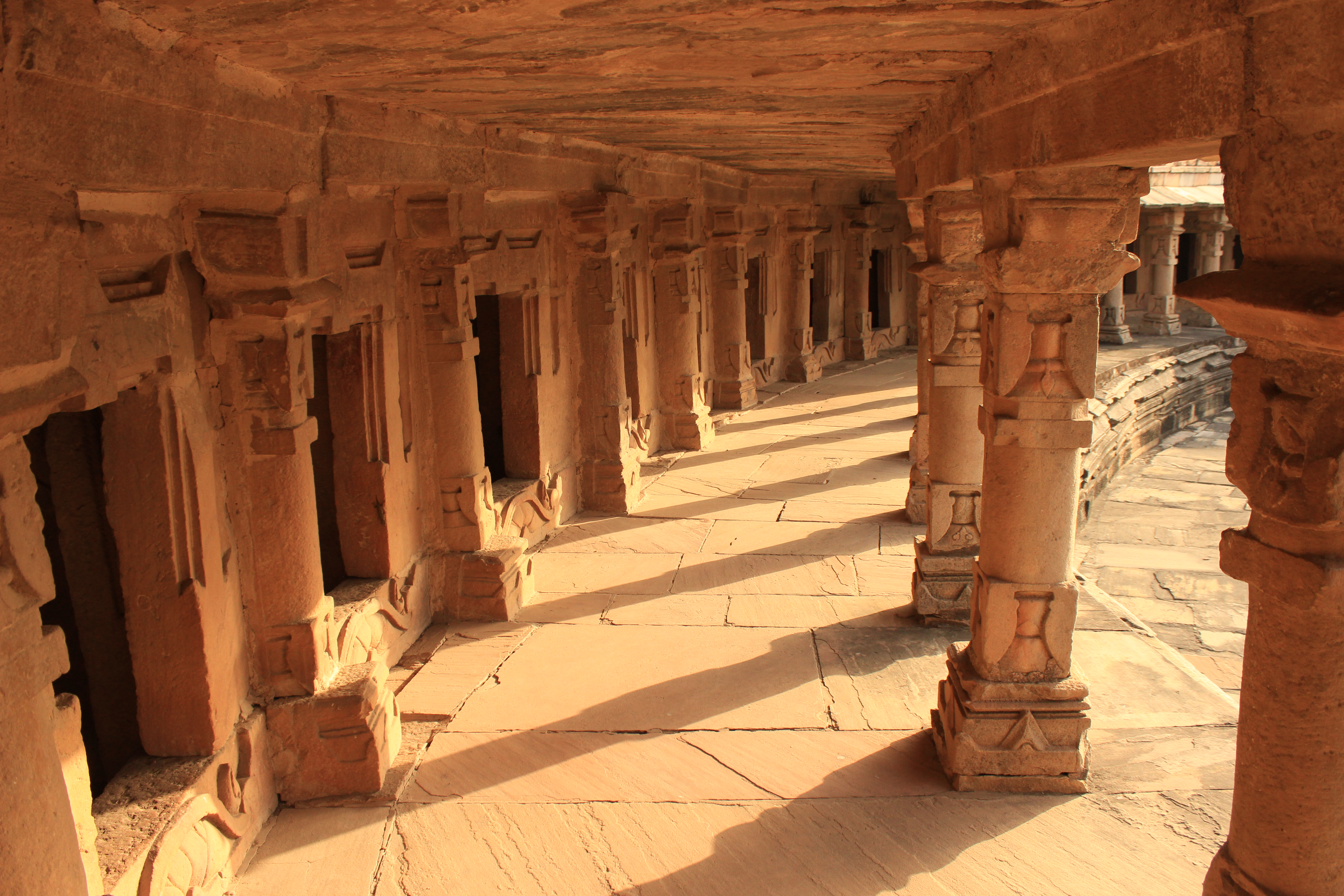 Inner corridor